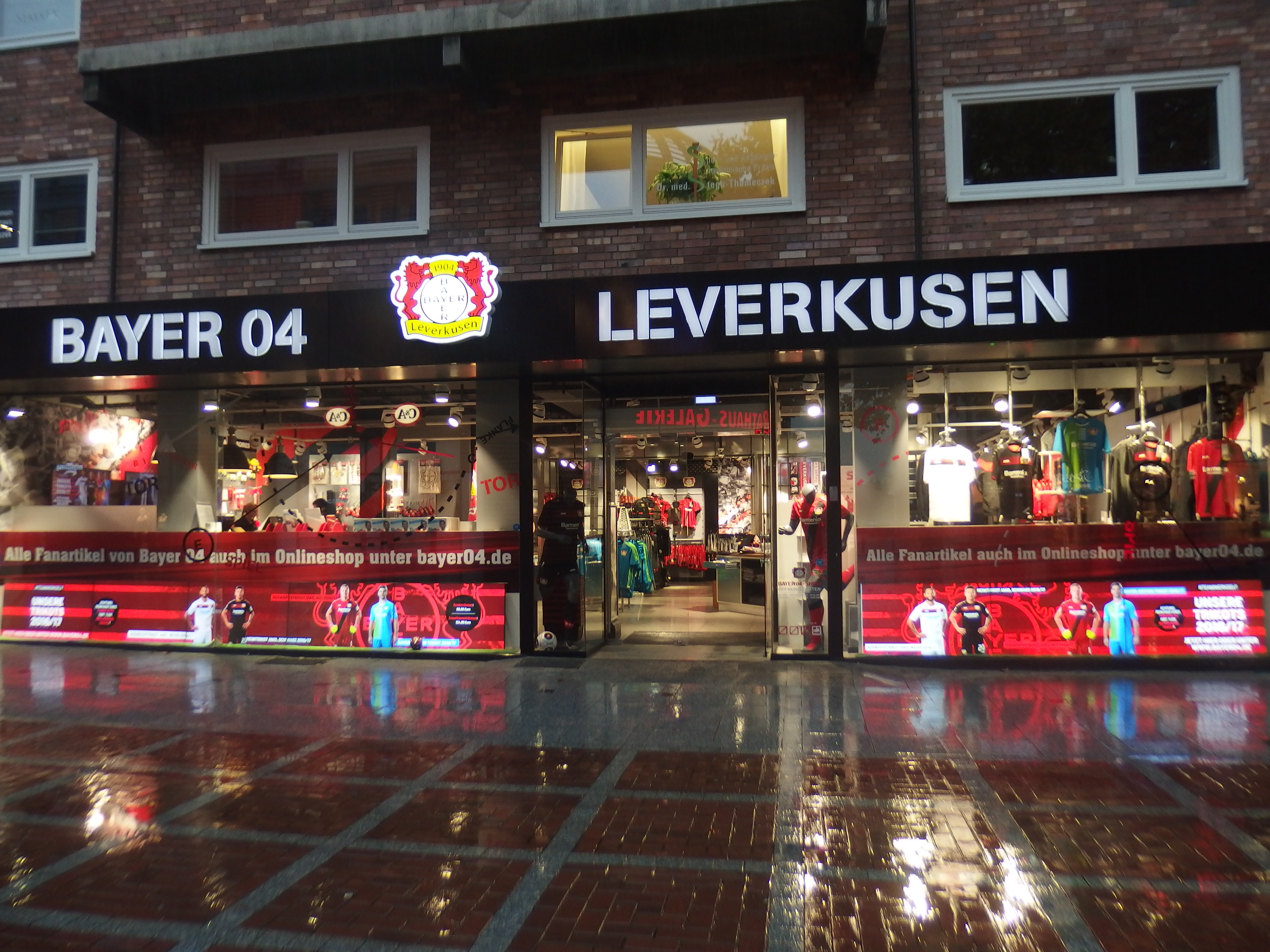 Leverkusen, North Rhine-Westphalia, Germany.